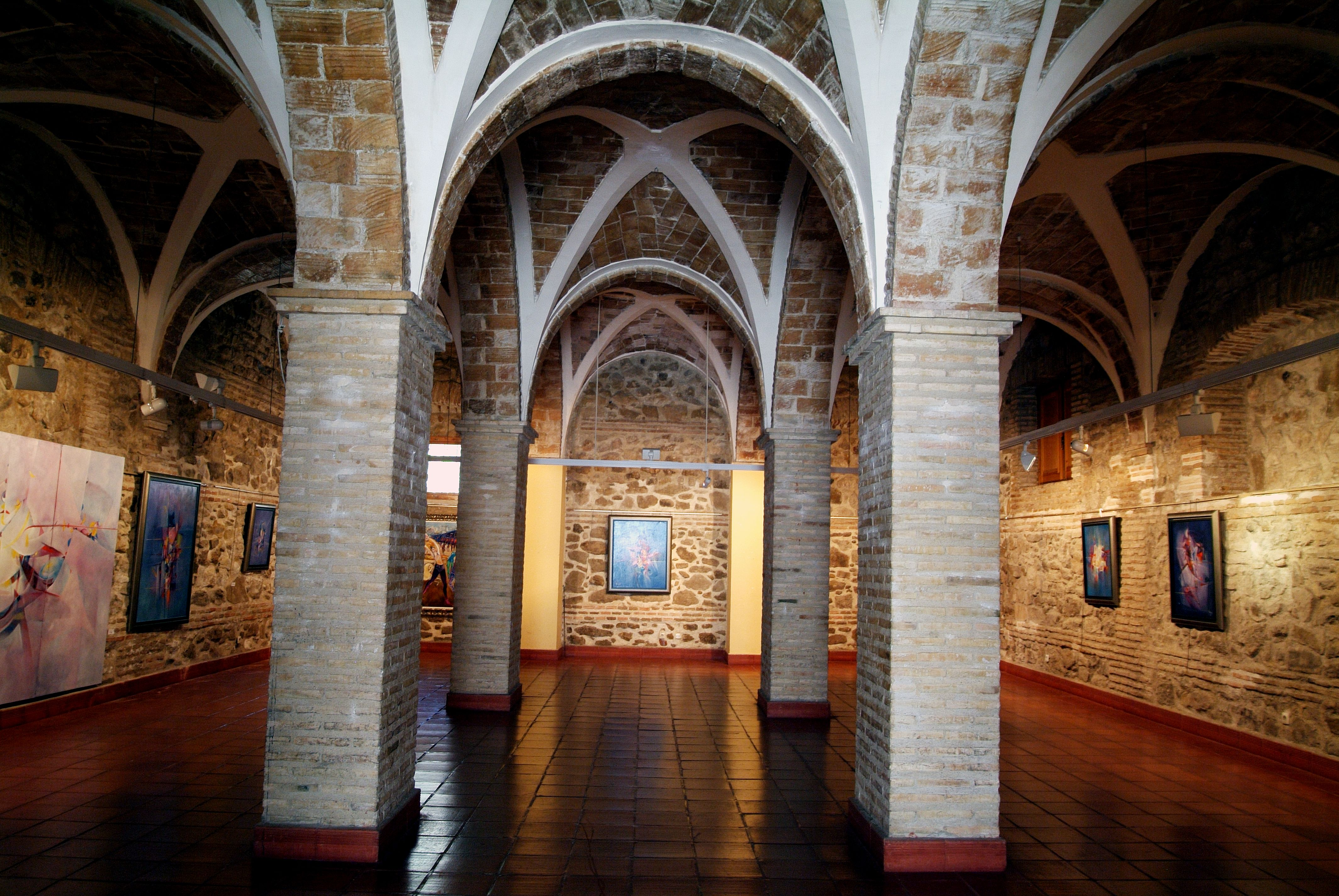 Antiguo Pósito y Biblioteca Mercedes Mendoza